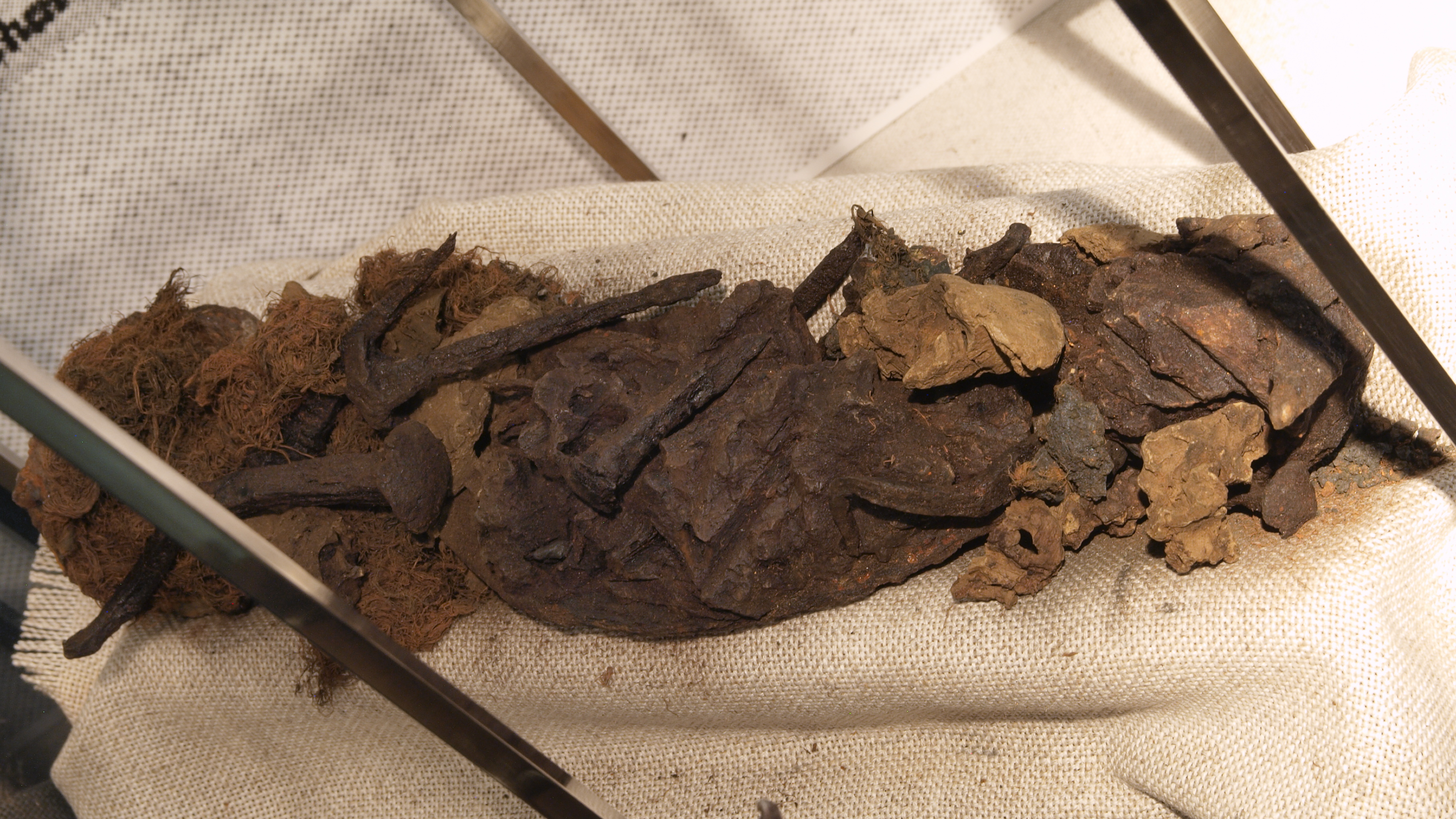 Canister shot ammunition of a cannon. Consisting of large iron nails, iron fragments, clay and hemp fabric. Found 1981 in the wreck of a sunken sailing boat of the 17th century in river Elbe near Wittenbergen in Hamburg-Rissen, Germany. Photographed at Museum für Hamburgische Geschichte, Hamburg, Germany